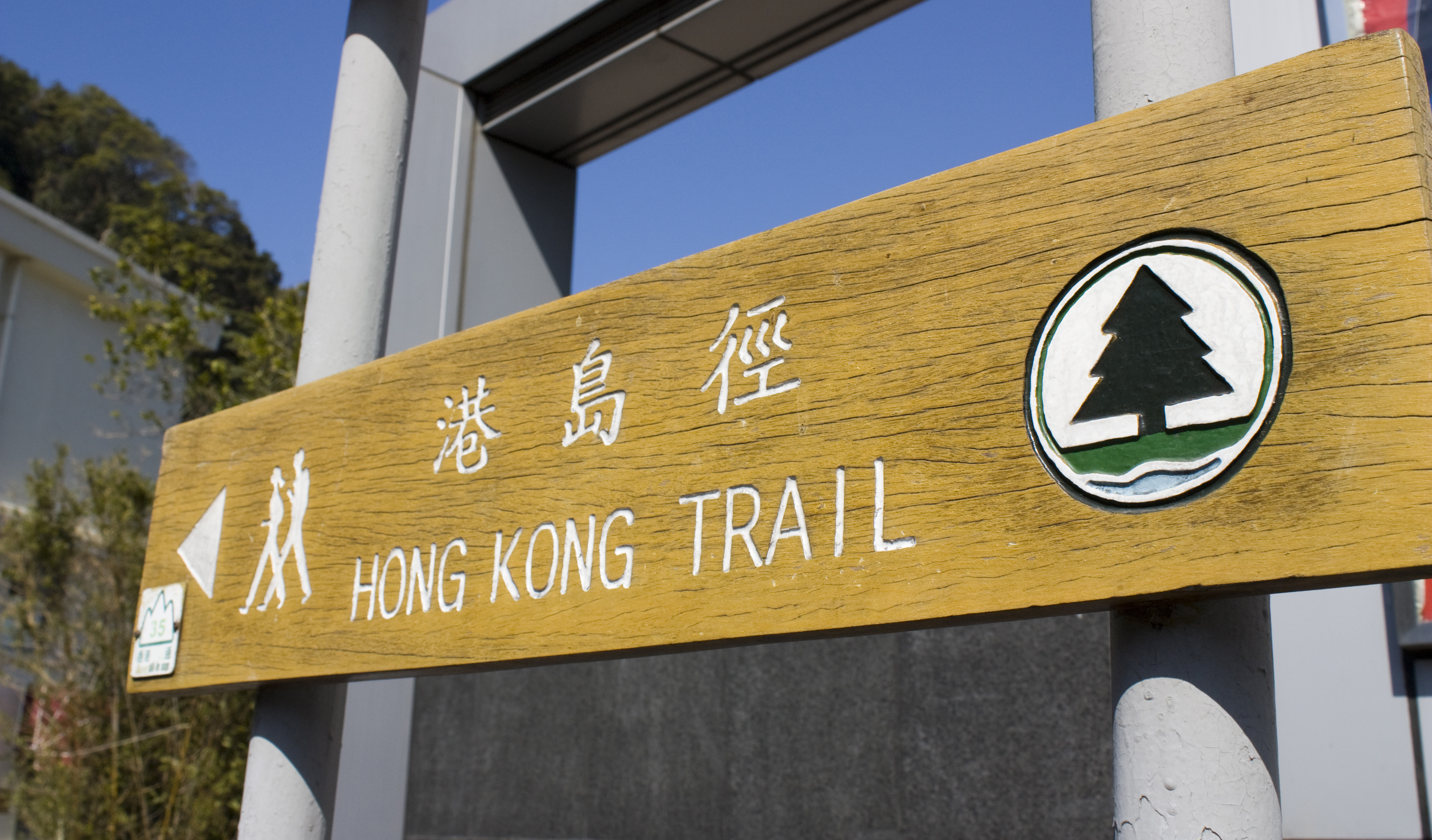 The starting point of the Hong Kong Trail on the Peak, Hong Kong Island 中文（香港）: 位於香港島山頂的港島徑起步點